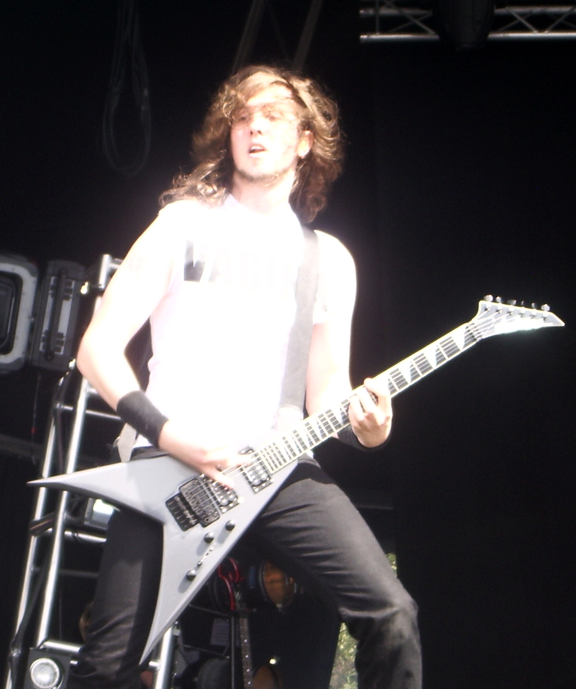 Matt Drake performing with Evile at Bloodstock Open Air, 15th August 2008